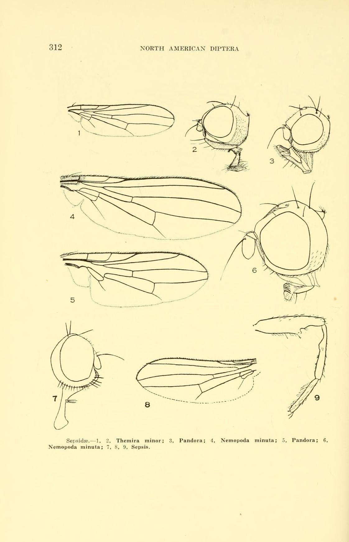 Charles Howard Curran , 1934 The families and genera of North American Diptera C.H. Curran in [New York] . 312Sepsidae Illustration from S.W. Williston Manual of North American Diptera (1888, 1896, 1908)